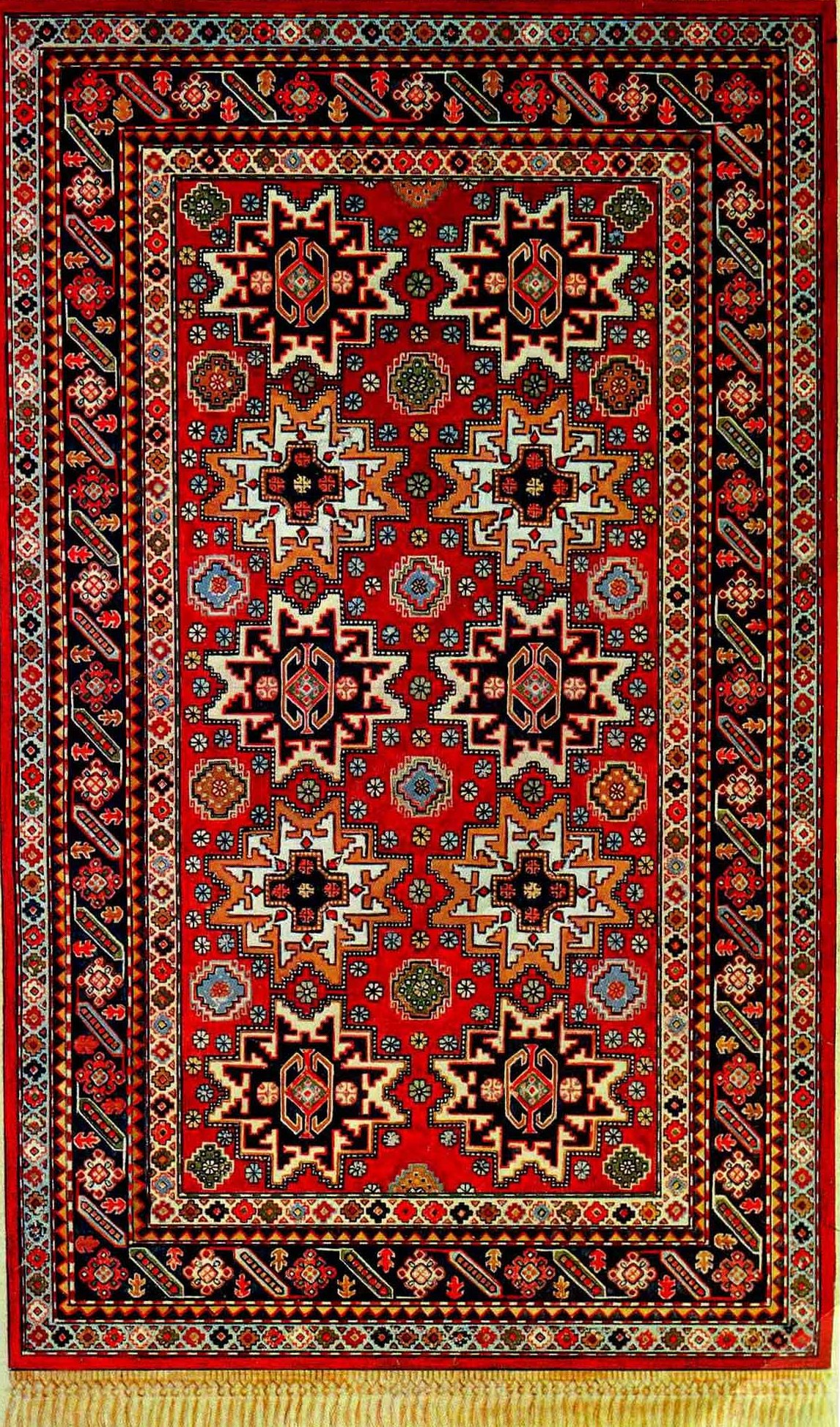 Zeyva rug, Guba school, XVIII c.